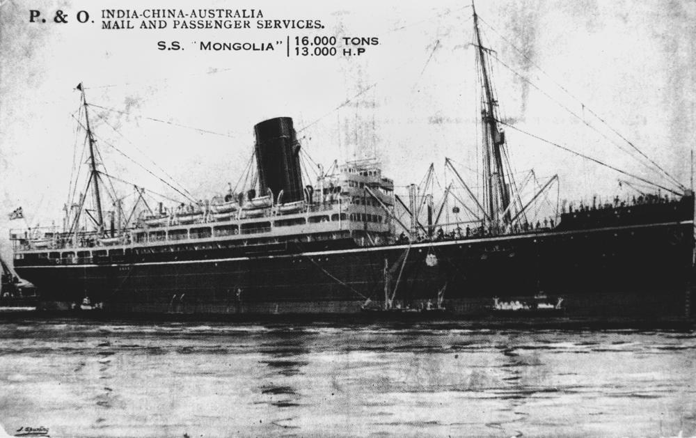 Mongolia (ship); Caption on photo: P.&O. India-China-Australia mail and passenger services. S.S. Mongolia: 16000 tons, 13000 h.p.